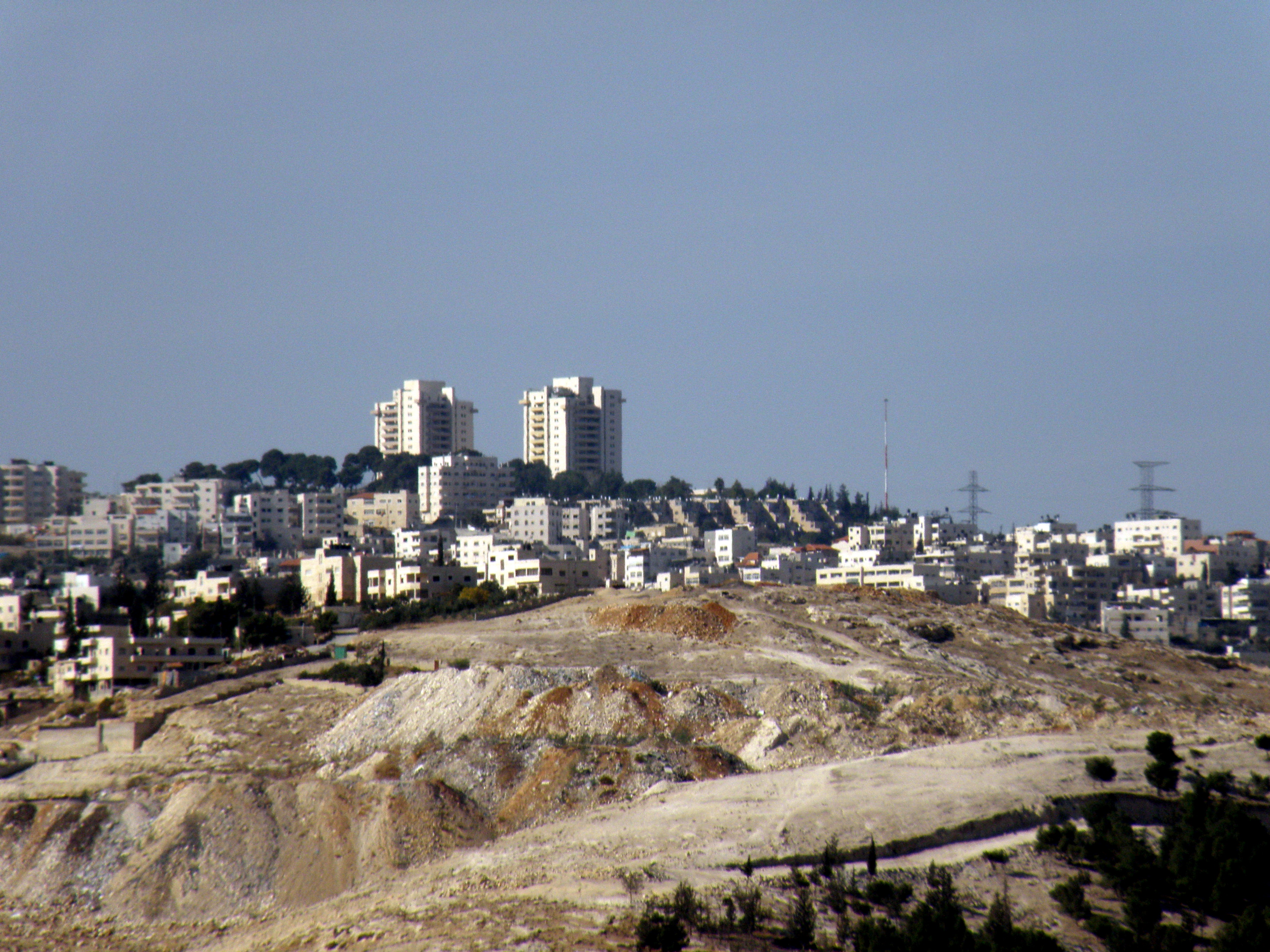 Ma'ale Adumim, view from the mall Ma'ale Adumim